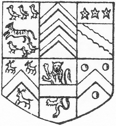 Arms of Sir John IV Arundell (1495–1561) of Trerice, drawn from his monumental brass in Stratton Church, Cornwall. He was known as "Jack of Tilbury", and was an Esquire of the Body to King Henry VIII whom he served as Vice-Admiral of the West. He was knighted at the Battle of the Spurs in 1513. In 1523 he achieved notability by the capture of a notorious pirate. He served twice as Sheriff of Cornwall, in 1532 and in 1541. Arms of 6 quarters: (per Dunkin, Edwin Hadlow Wise, The Monumental Brasses of Cornwall with Descriptive, Genealogical and Heraldic Notes, 1882, Plate XXX, p. 34) 1:Sable, a wolf between six swallows argent (Arundell) 2:Sable, three chevronels argent (Lansladron) 3:Argent, a bend engrailed sable on a chief gules three mullets or pierced azure (apparently a difference of St John) 4:Argent, a chevron sable between three bucks gules (Rogers(?)) ("Rogers of Lank married the heiress of Haydon of Haydon in Jacobstow — extinct in the elder branch about 1620. Arms: Arg. a chevron between three stags trippant Sable (Lysons, Magna Britannia, Vol.3, Cornwall, Extinct Gentry Families)[1]) 5:Azure, a lion rampant guardant argent debruised by a fess gules (?) 6:Sable, a chevron argent between three bezants (Pellor).